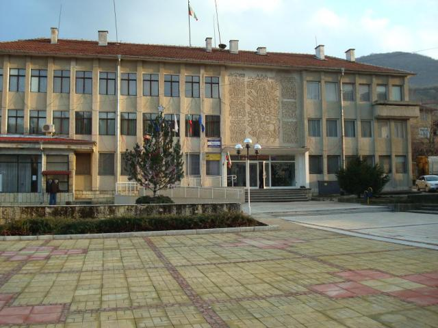 Citi hall of municipality Opaka, Bulgaria